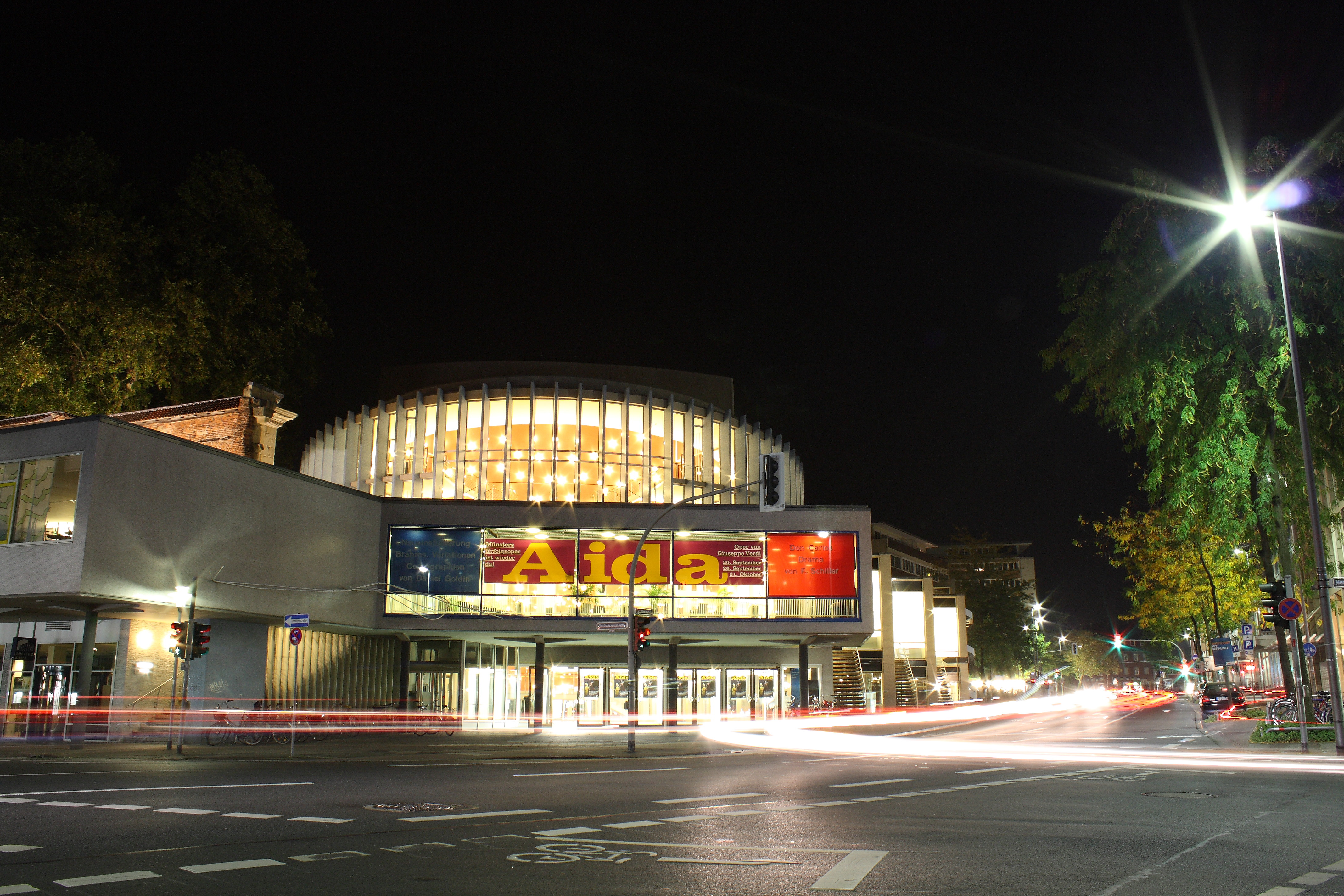 The Münster Theater by night